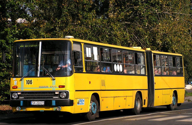 Bus Ikarus 280.70E number (#106) from PKM Katowice. Year of production: 1997.